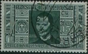 serie società pro-DanteAlighieri - francobolli del Regno d'Italia - 1932 - Niccolò Machiavelli - stamps of the kingdom of Italy